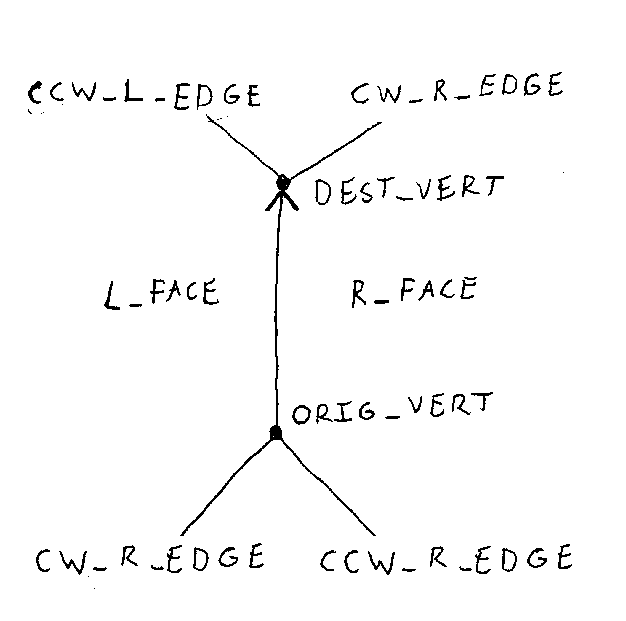 Graphical representation of an edge record in the winged edge data structure.